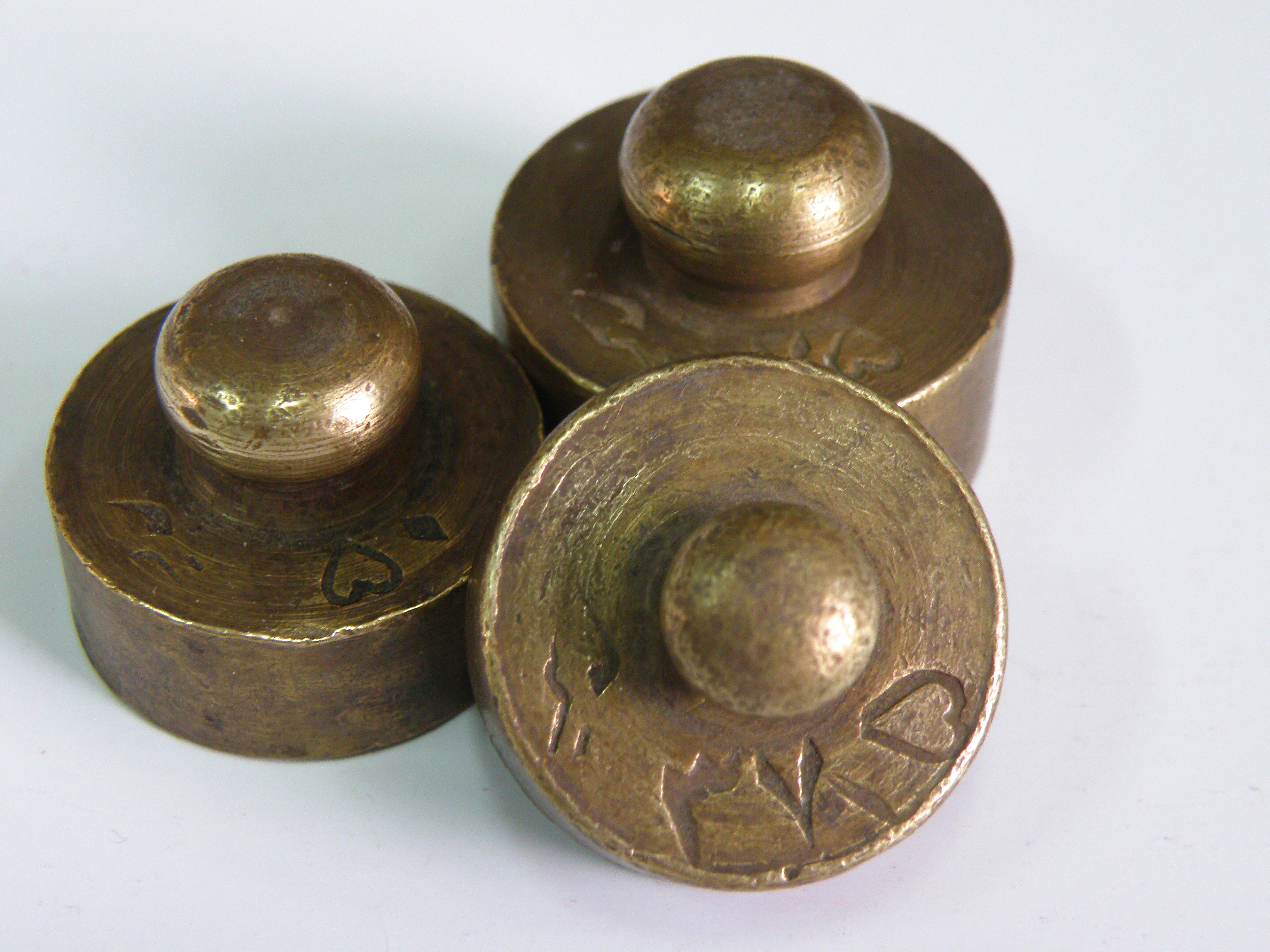 Balance Rock